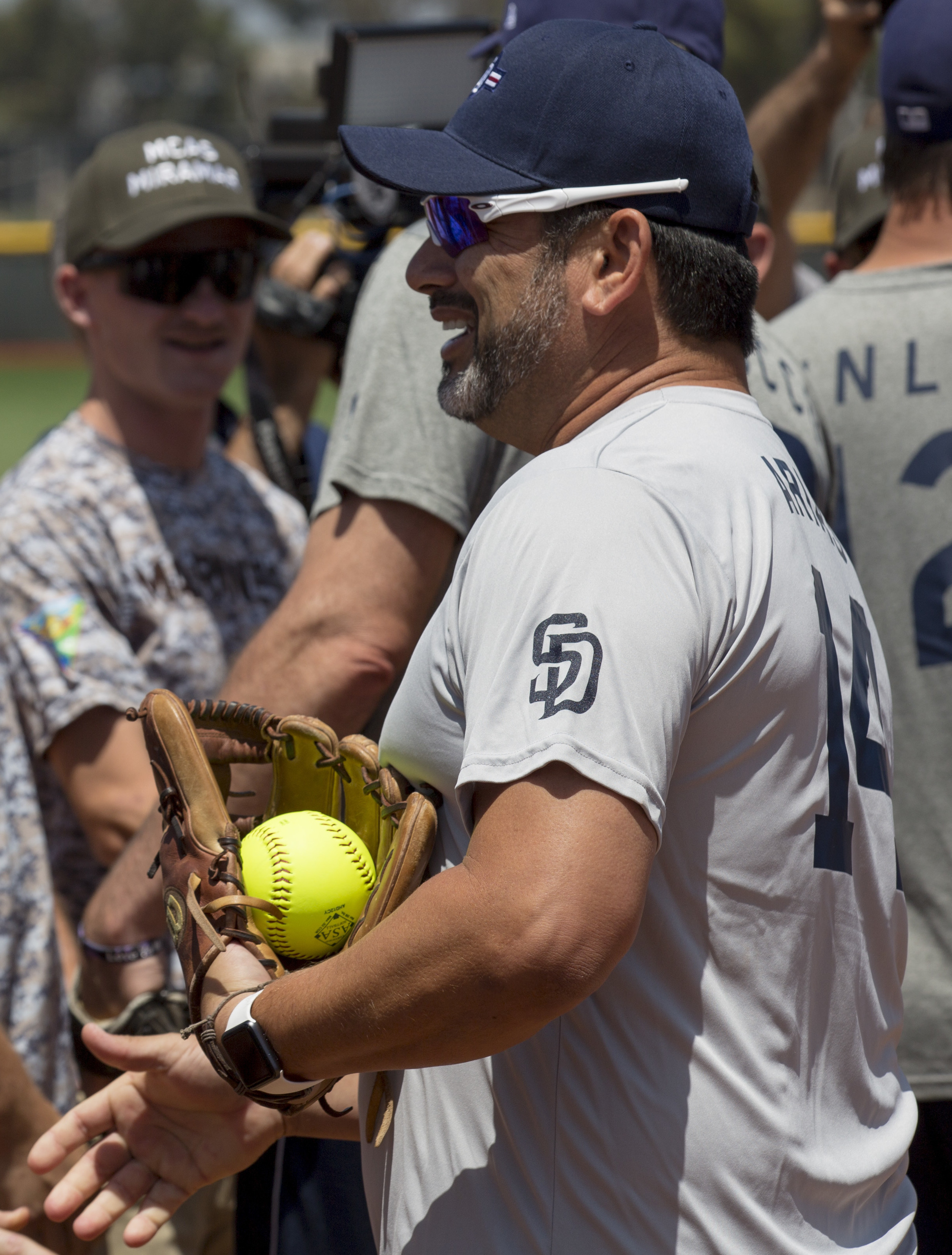 Marines with Marine Corps Air Station Miramar’s softball team and San Diego Padres Alumni shake hands prior to playing a softball game on MCAS Miramar, Calif., May 10. The Padres Alumni came to demonstrate their support for the military with spirited competition and to thank service members of MCAS Miramar for their service. (U.S. Marine Corps photo by Cpl. Daniel Auvert/Released)